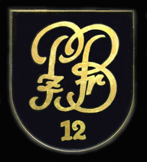 Staff & HQ Company 12th Armored Brigade